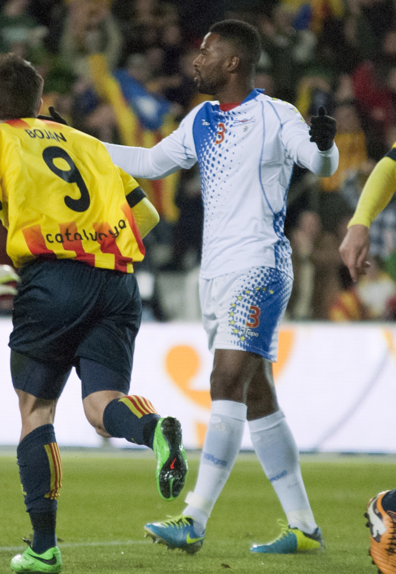 Cape Verde international football player Fernando Varela during friendly match Catalonia vs. Cape Verde